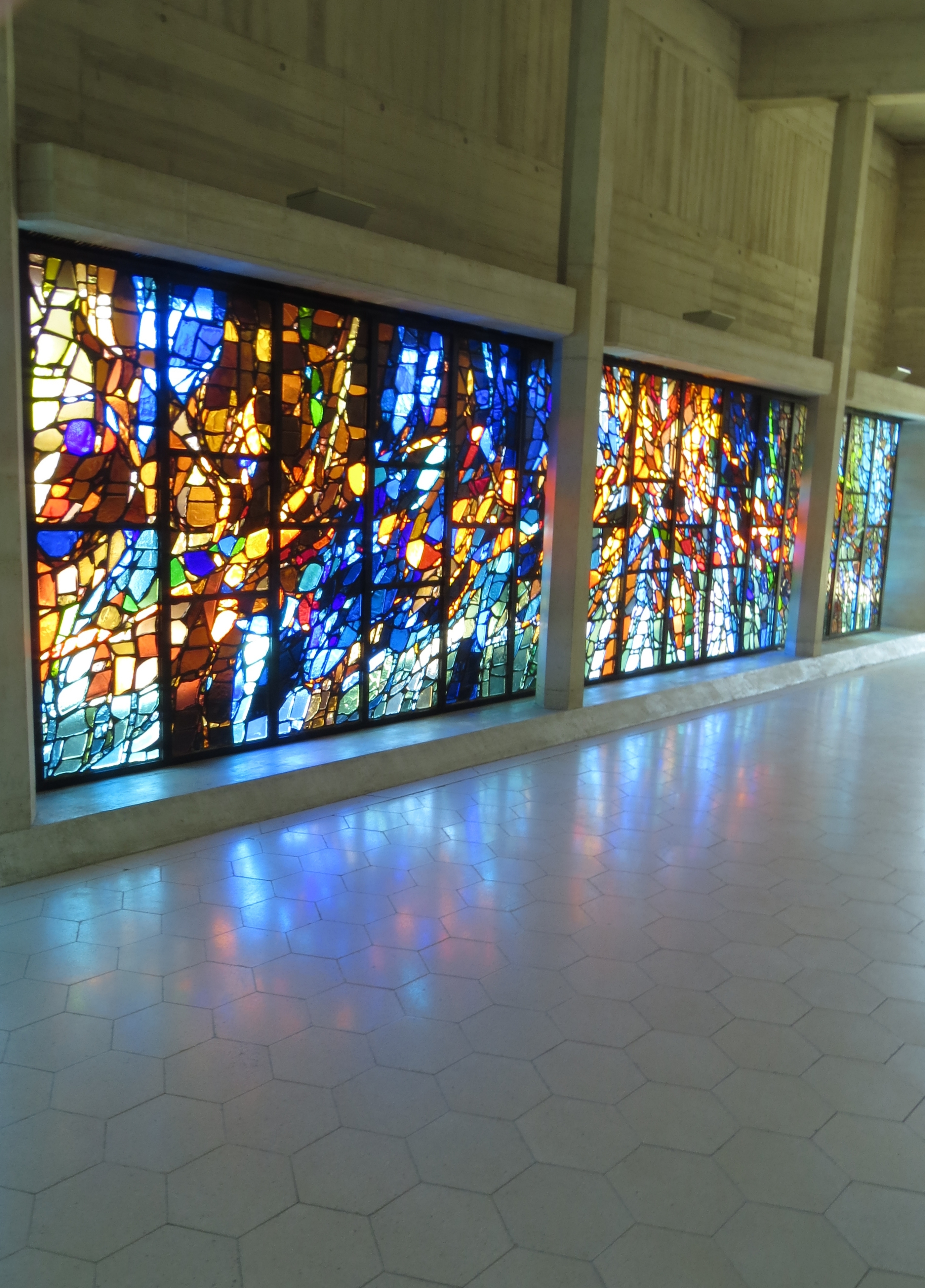 Clifton Cathedral, Clifton Park, Bristol BS8 3BX, UK